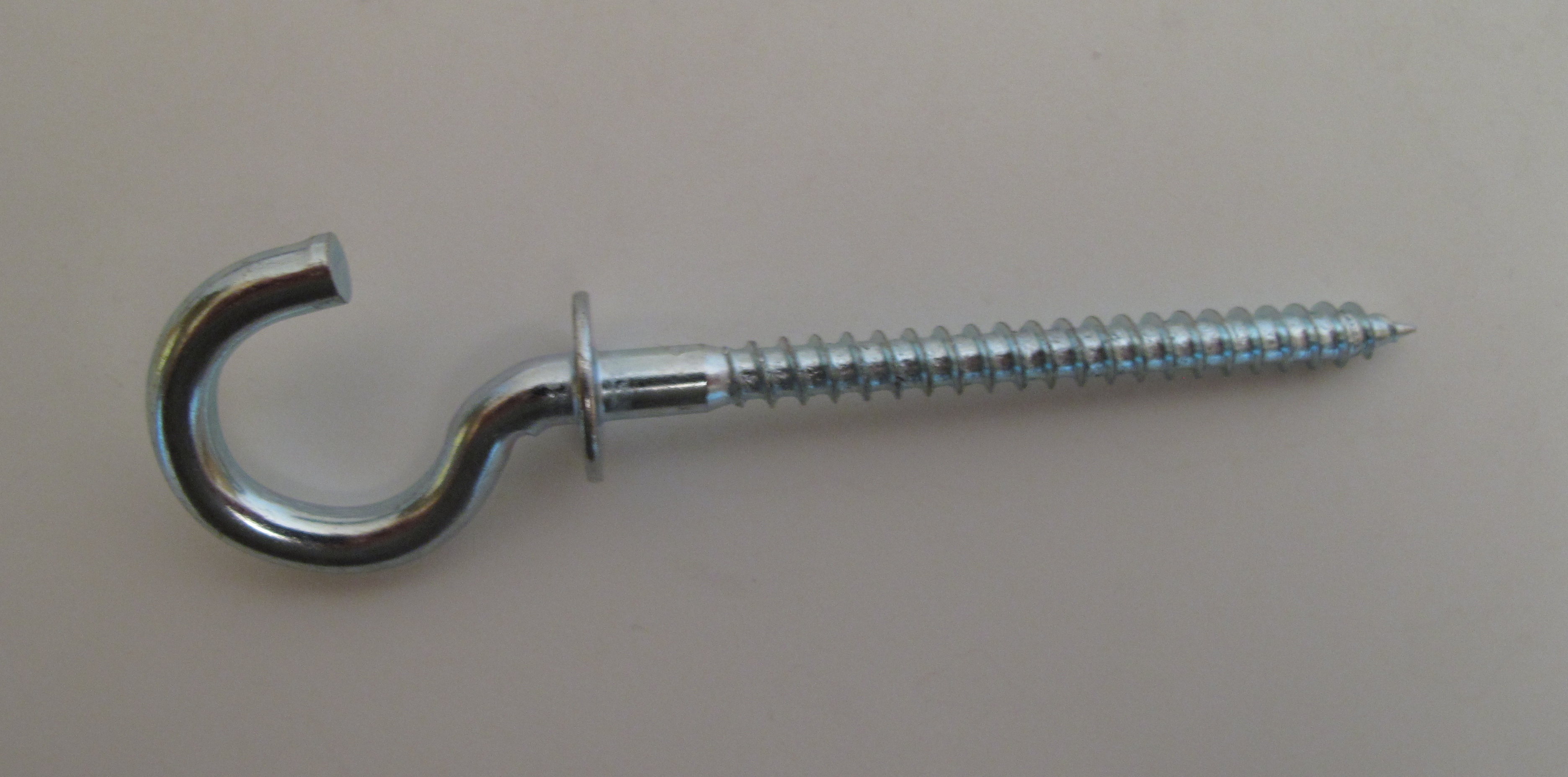 Wood screw hook 4,5x83 ZN. Prague, Czech Republic.